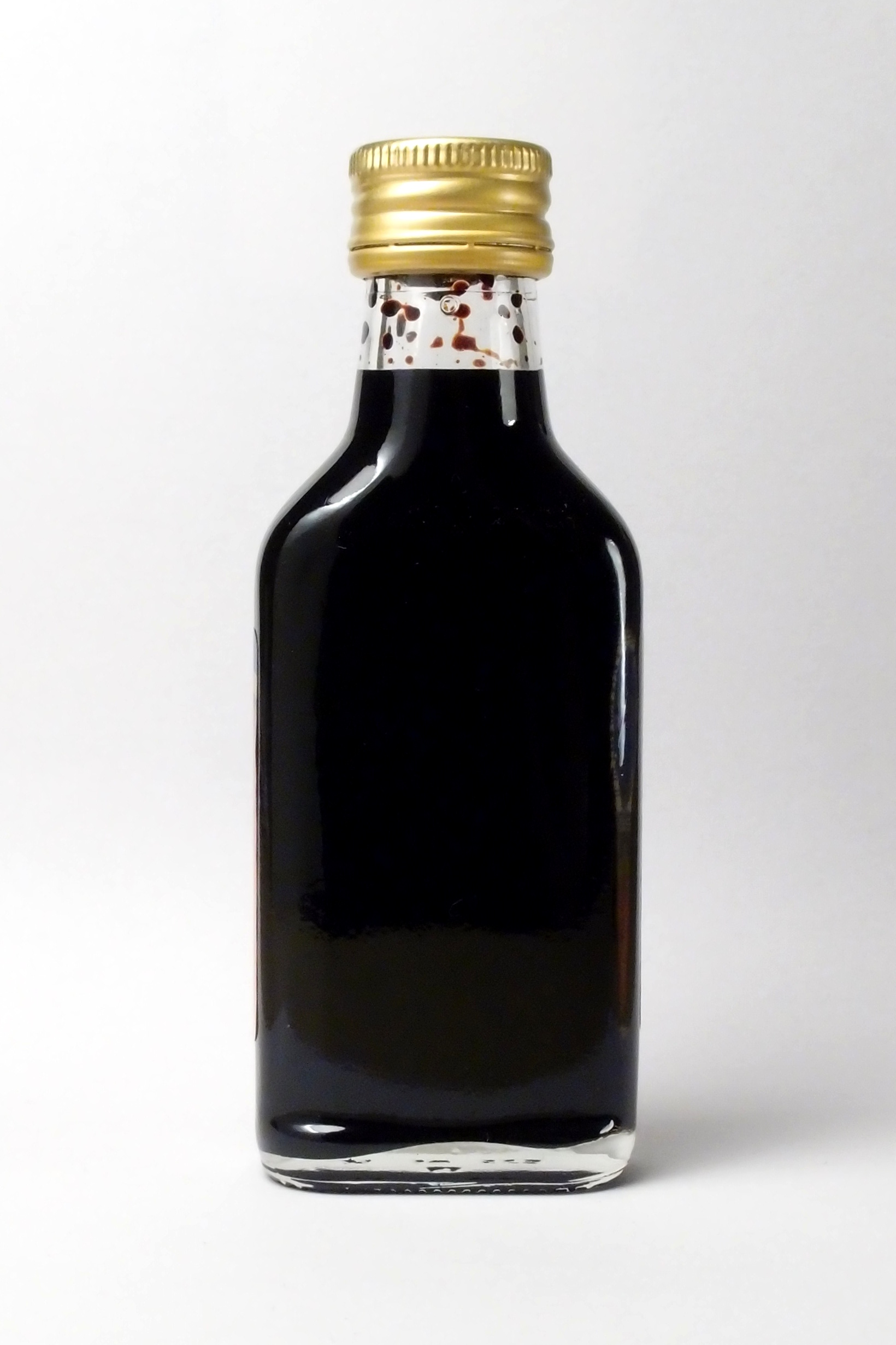 A bottle of caramel colouring, made by Appel Feinkost of Germany. Back view of the bottle, label not visible.